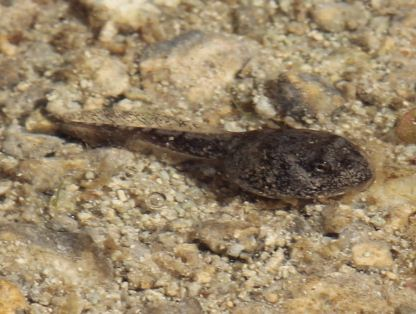 Oak toad tadpole. Source:USGS National Wetlands Research CenterPhotographer:Jeromi Hefner Descriptions:Tadpole; Picayune Strand State Forest, Collier County, Florida.